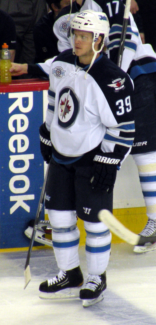 Winnipeg Jets defenceman Tobias Enstrom prior to a National Hockey League game against the Calgary Flames.